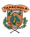 Escode of Arms Tapchula 1821